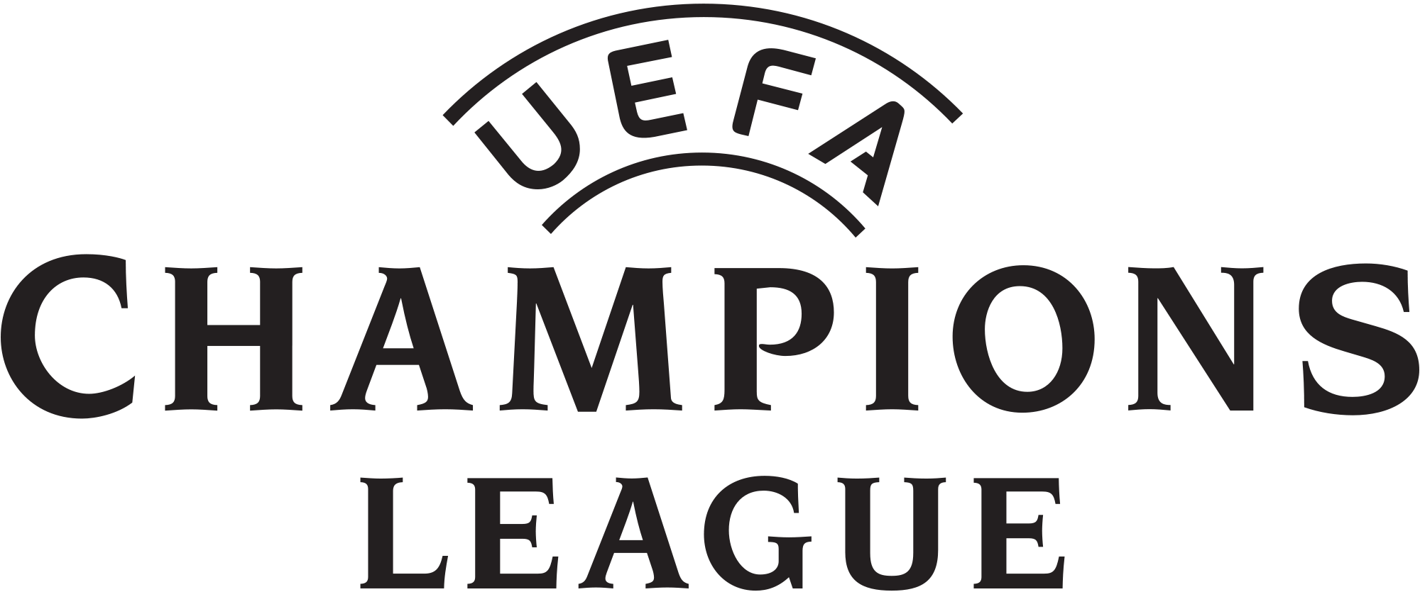 uefa logo